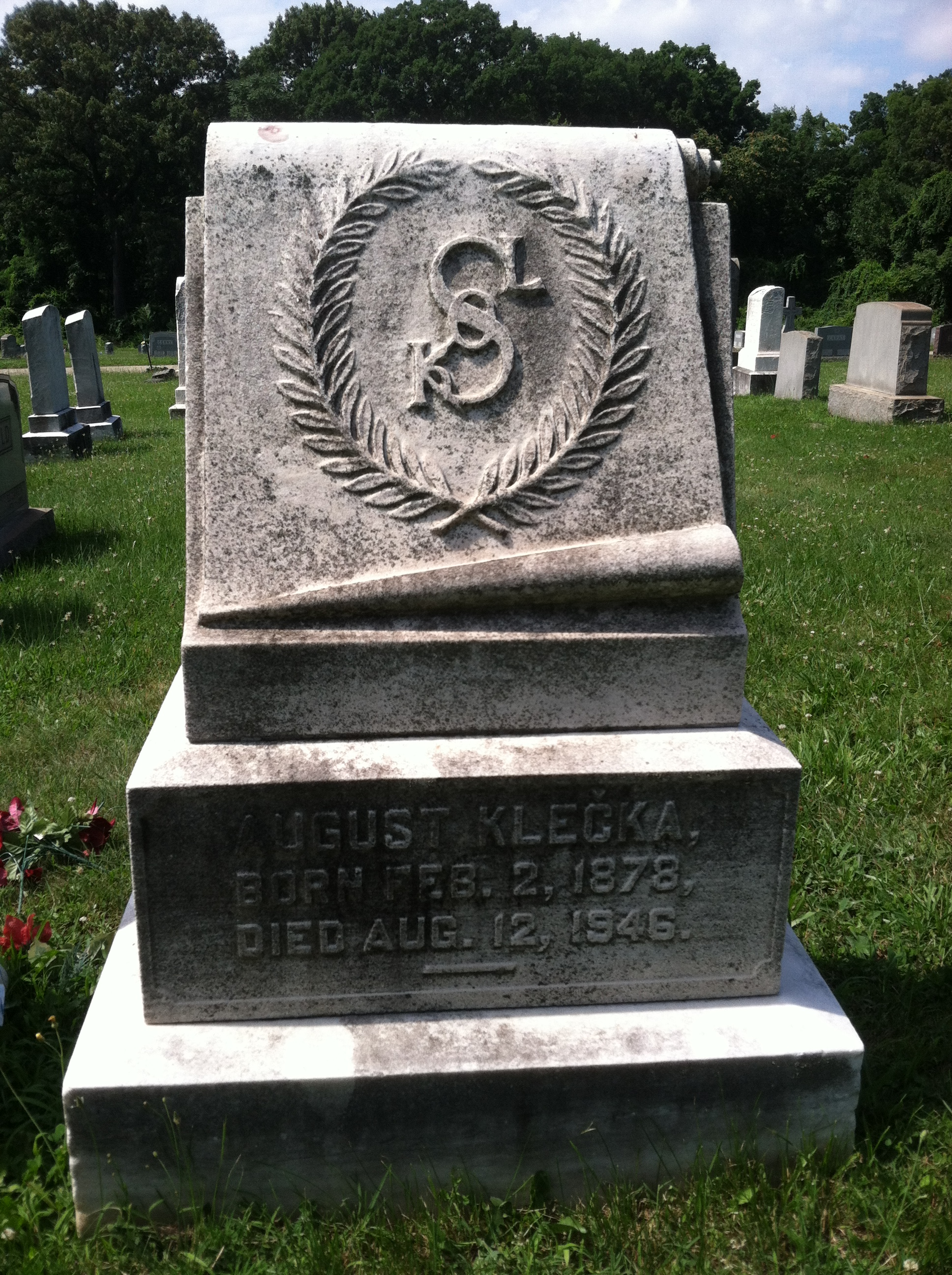 Graves at the Bohemian National Cemetery, Baltimore. August Klecka was a prominent politician and a leader of the Baltimore Bohemian community.